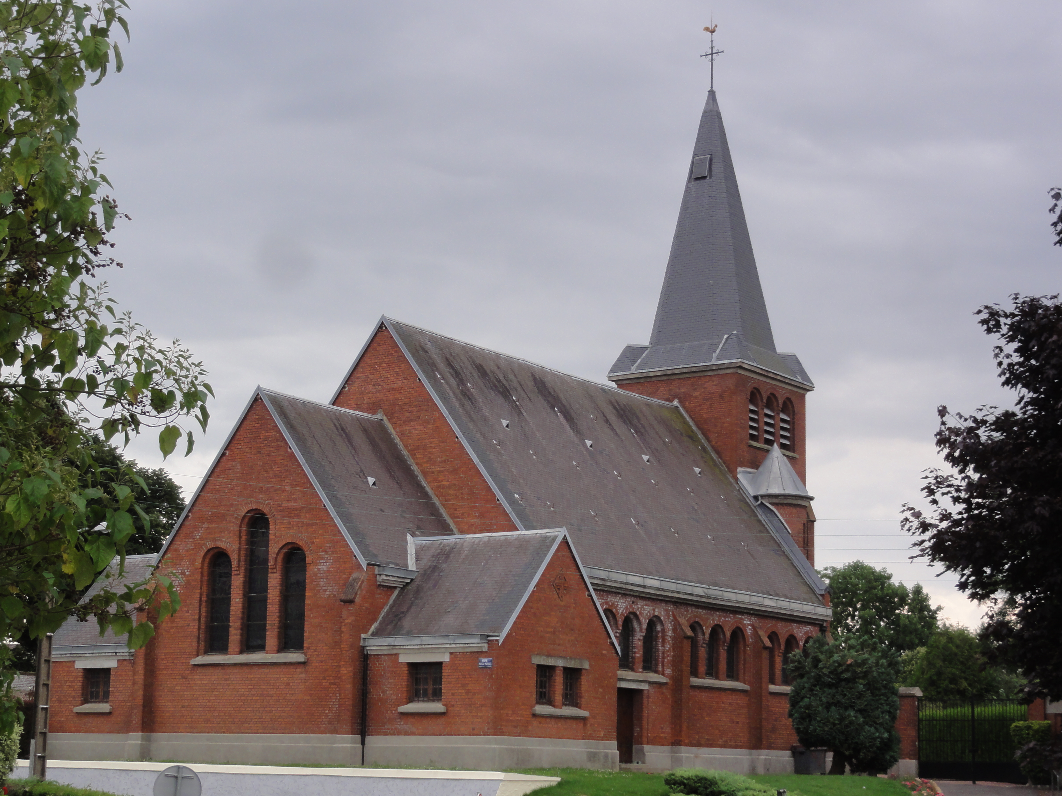 Amigny-Rouy (Aisne) église Saint-Quentin